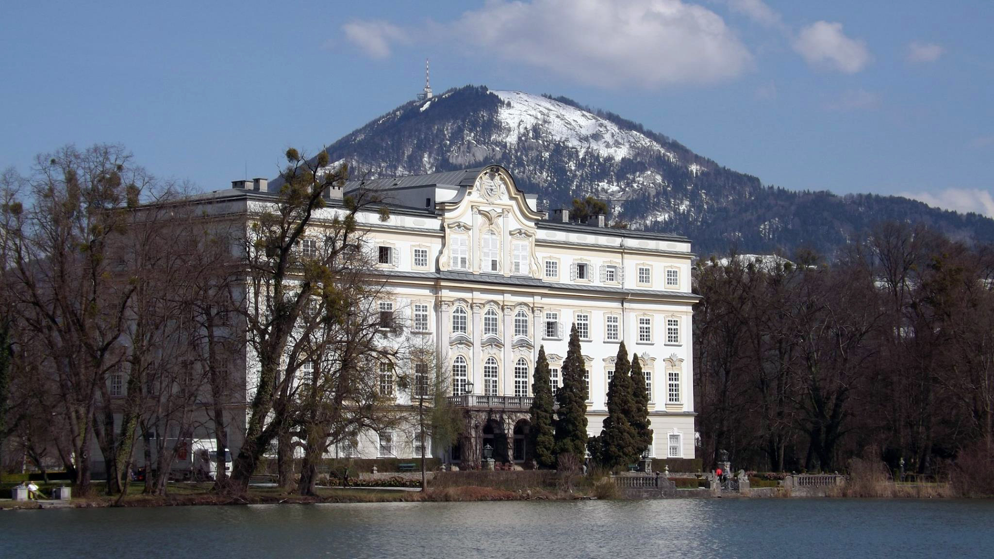 Schloss Leopoldskron in Salzburg, Austria